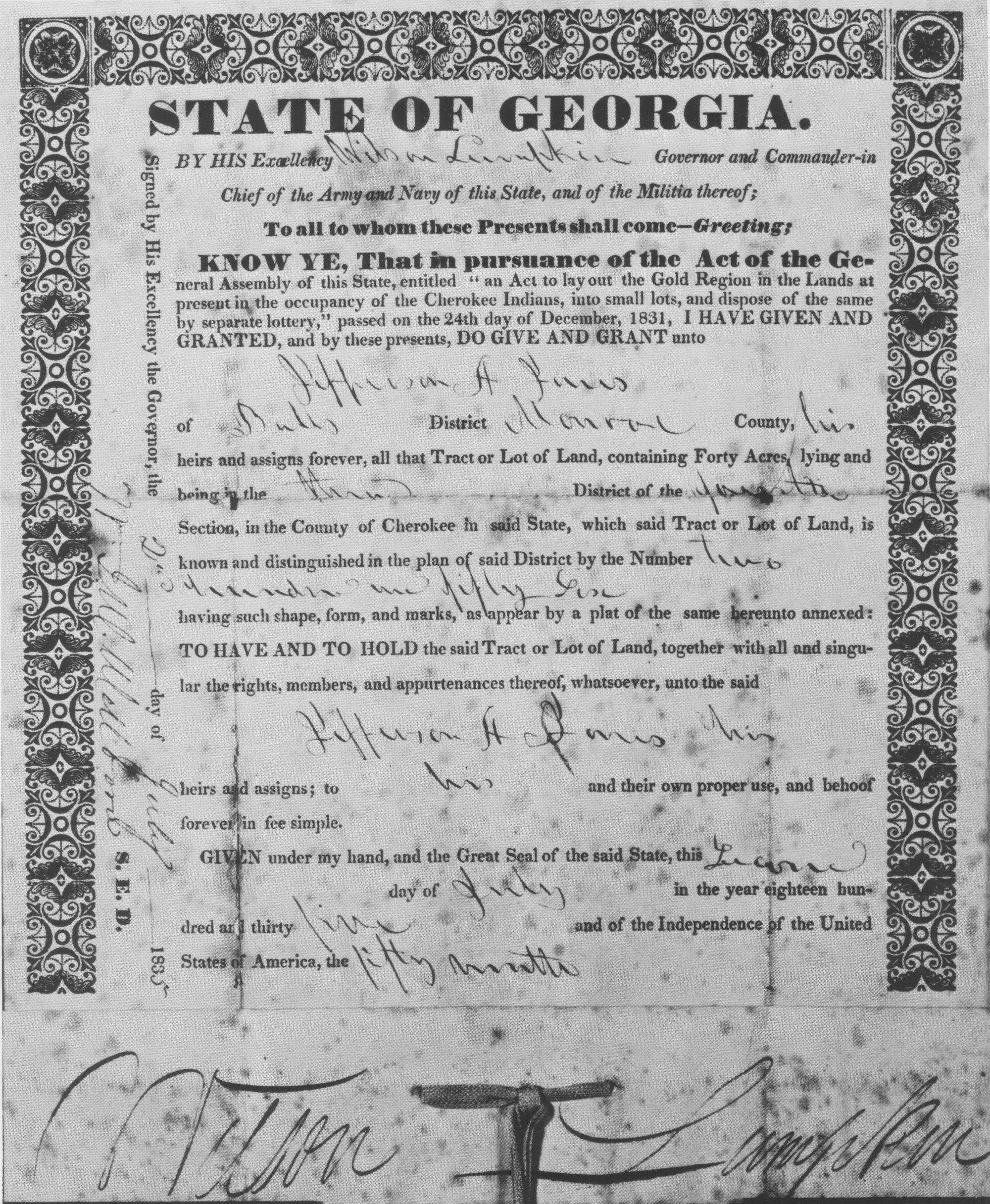 Grant issued to a drawer in the Cherokee Land Lottery of 1832 which dispersed the former Cherokee property among the white settlers in Georgia. (with a permission from Sesquicentennial Committee of The City of Rome.)